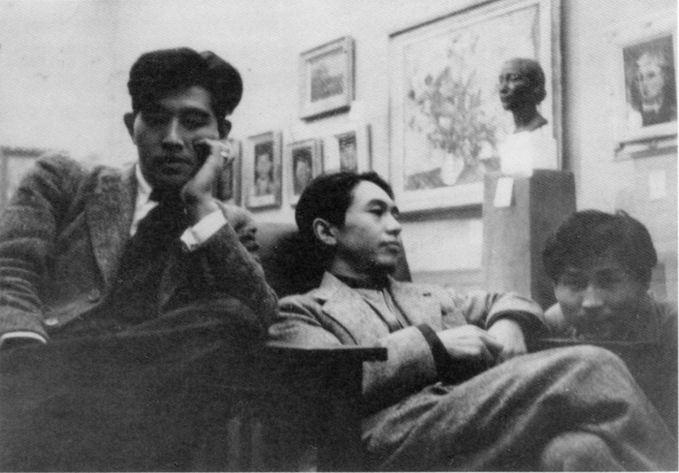 A photography of Matsumoto Shunsuke in 1947